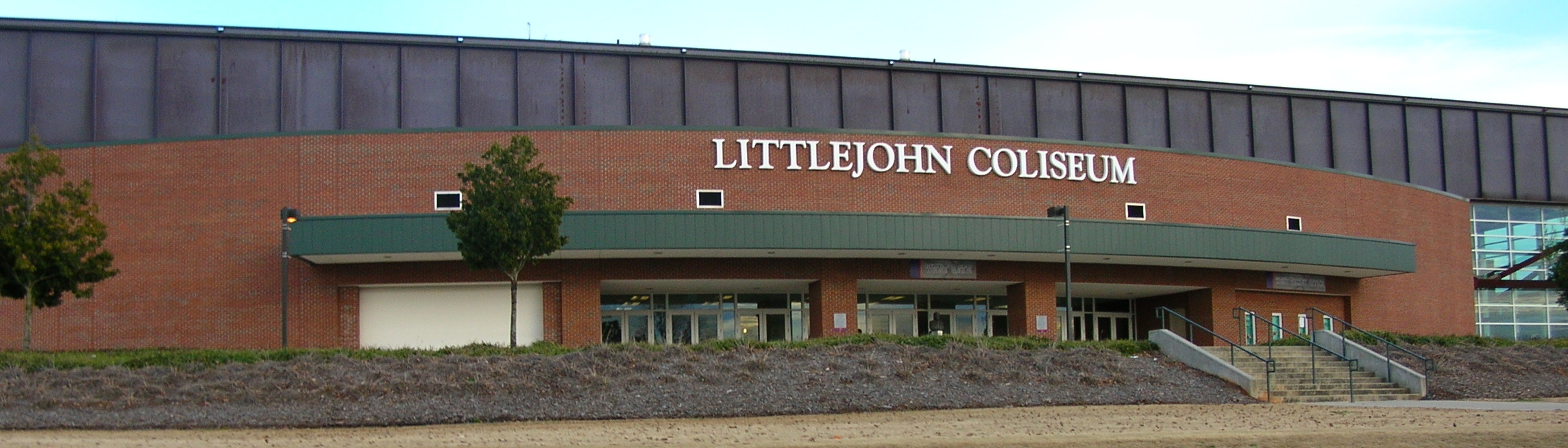 Picture of the outside of Littlejohn Coliseum